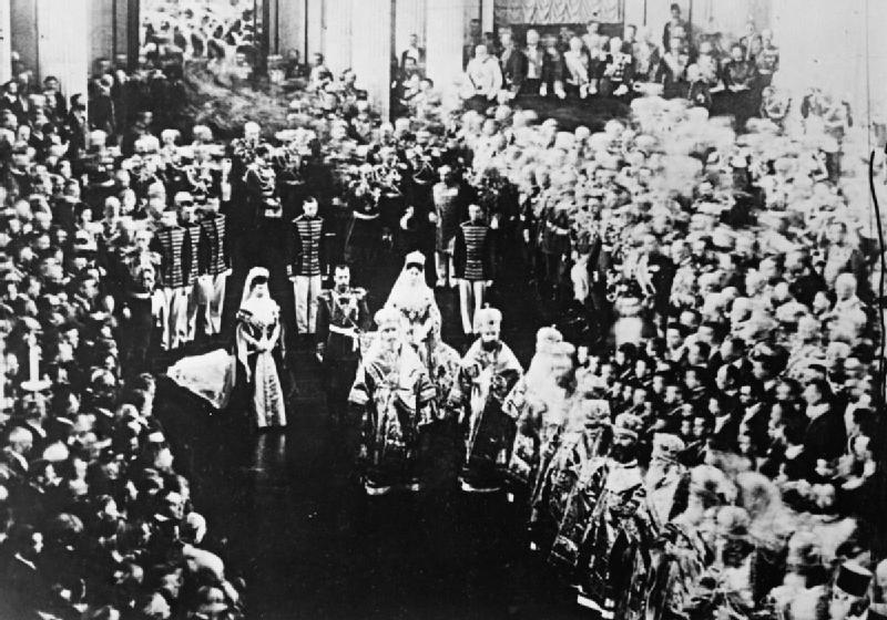 Russia Before the First World War Opening of the First State Duma.